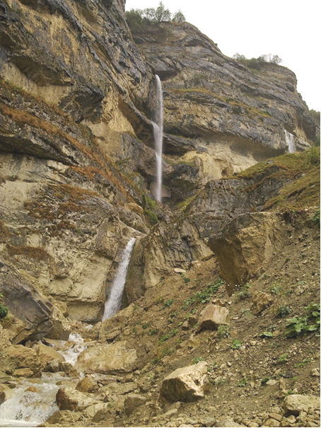 Laza Falls, Azerbaijan